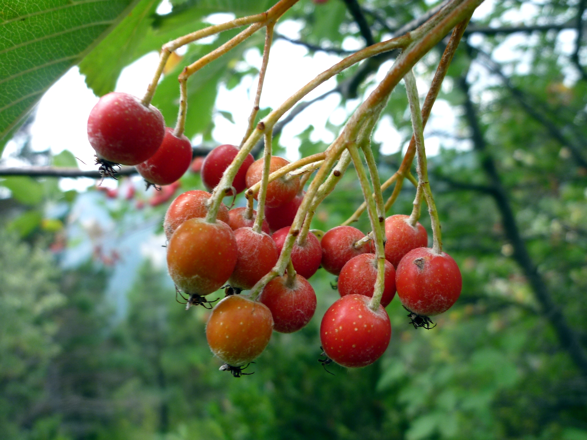 Sorbus aria. In la Bòfia, Guixers (Solsonès - Catalunya). To 1.720 m. altitude